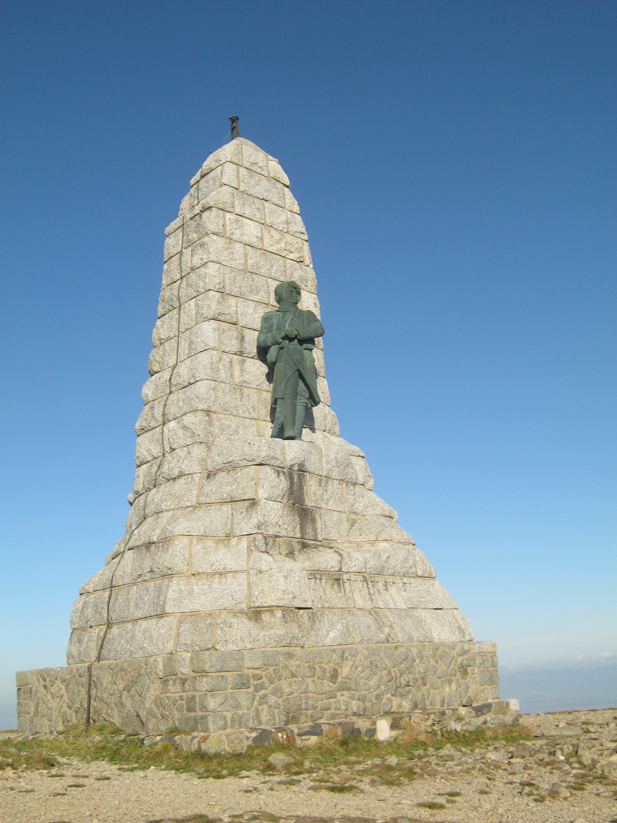 Monument on the Grand Ballon, France